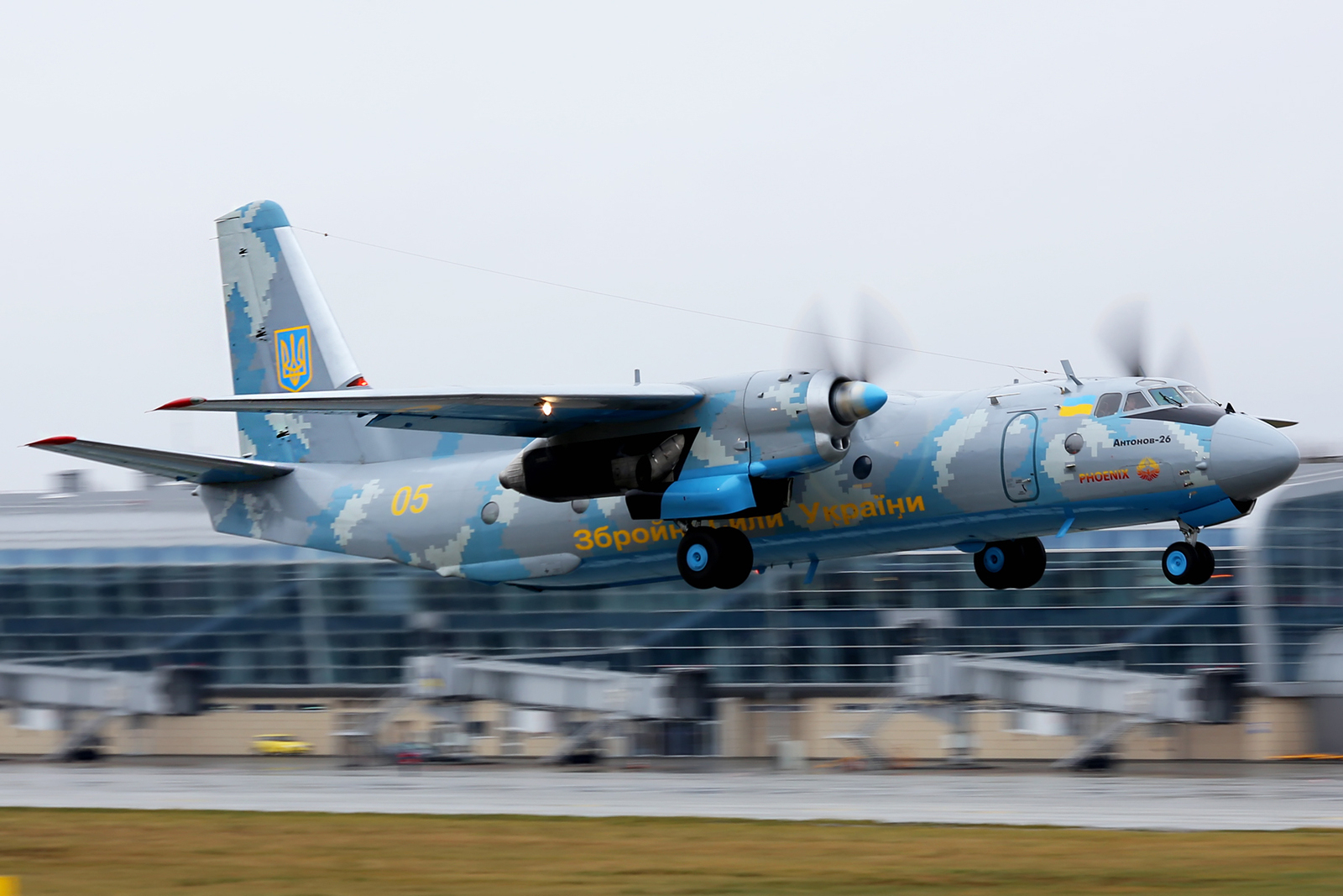 Ukraine Air Force Antonov An-26 take off at Lviv Airport